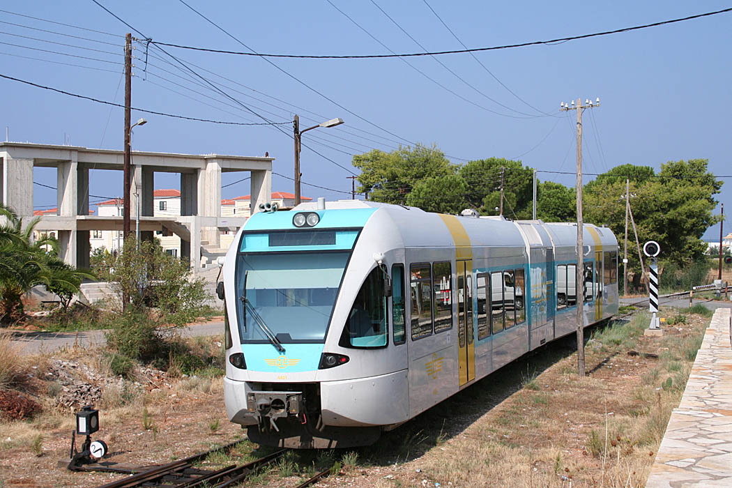 Greece, Hellenic Railways Organization: Train 351 from Kalamata to Pyrgos leaving Kalo Nero. The train is a metric gauge Stadler GTW.